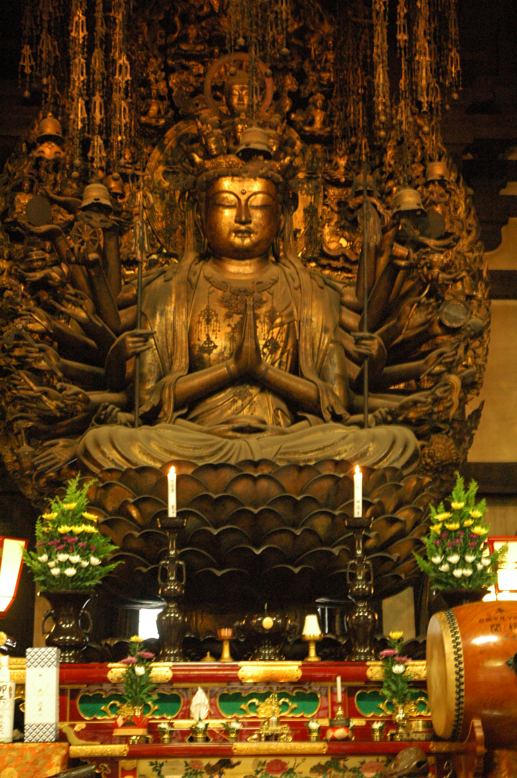 Thousand-armed Kannon (木造千手観音坐像, mokuzō senjū kannon zazō) at Sanjūsangen-dō, Kyoto, Japan. The statue is the central image of the hall, about 335cm tall and has been designated as National Treasure of Japan.